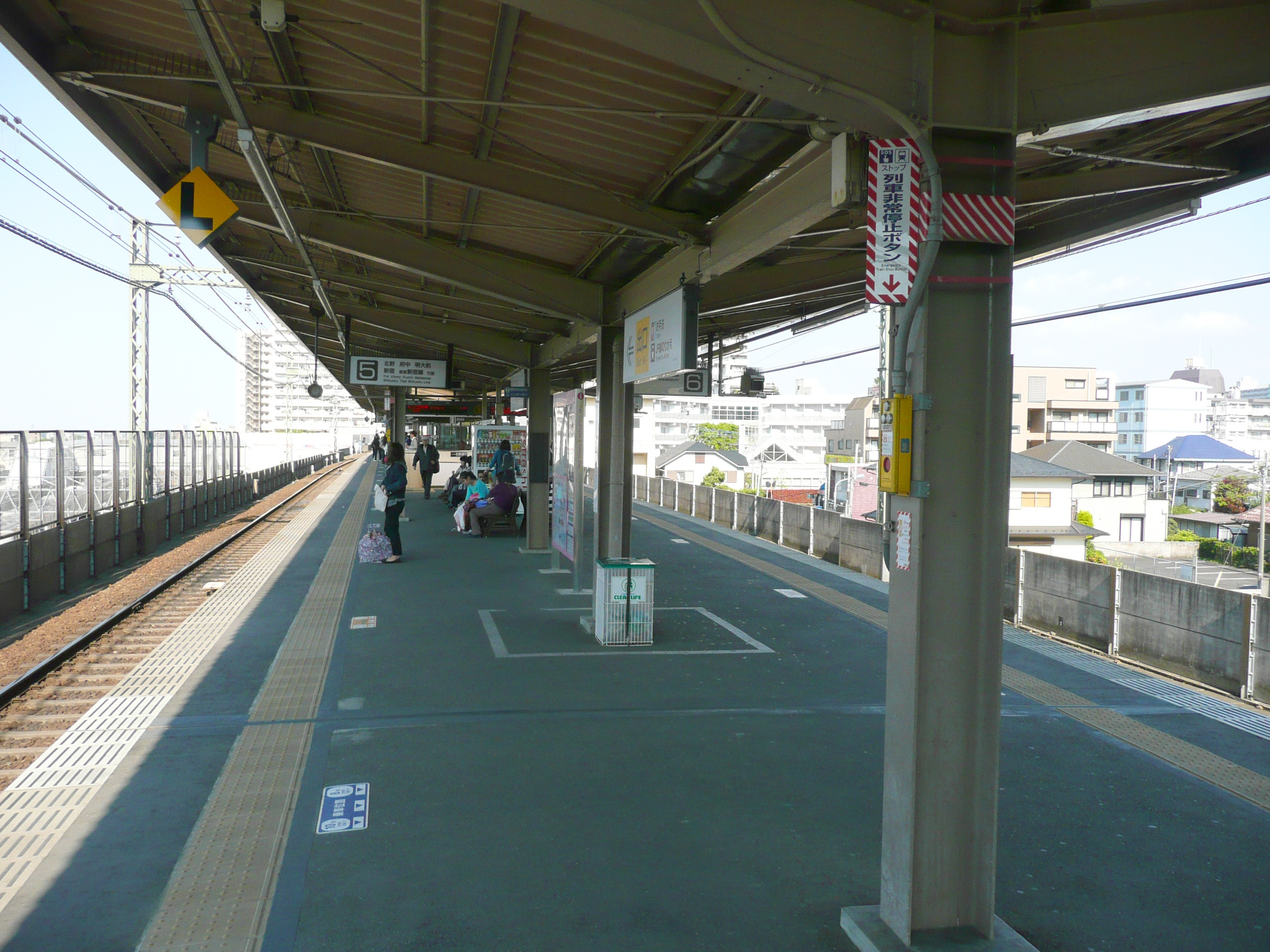 Platforms of Takao Station (Tokyo).